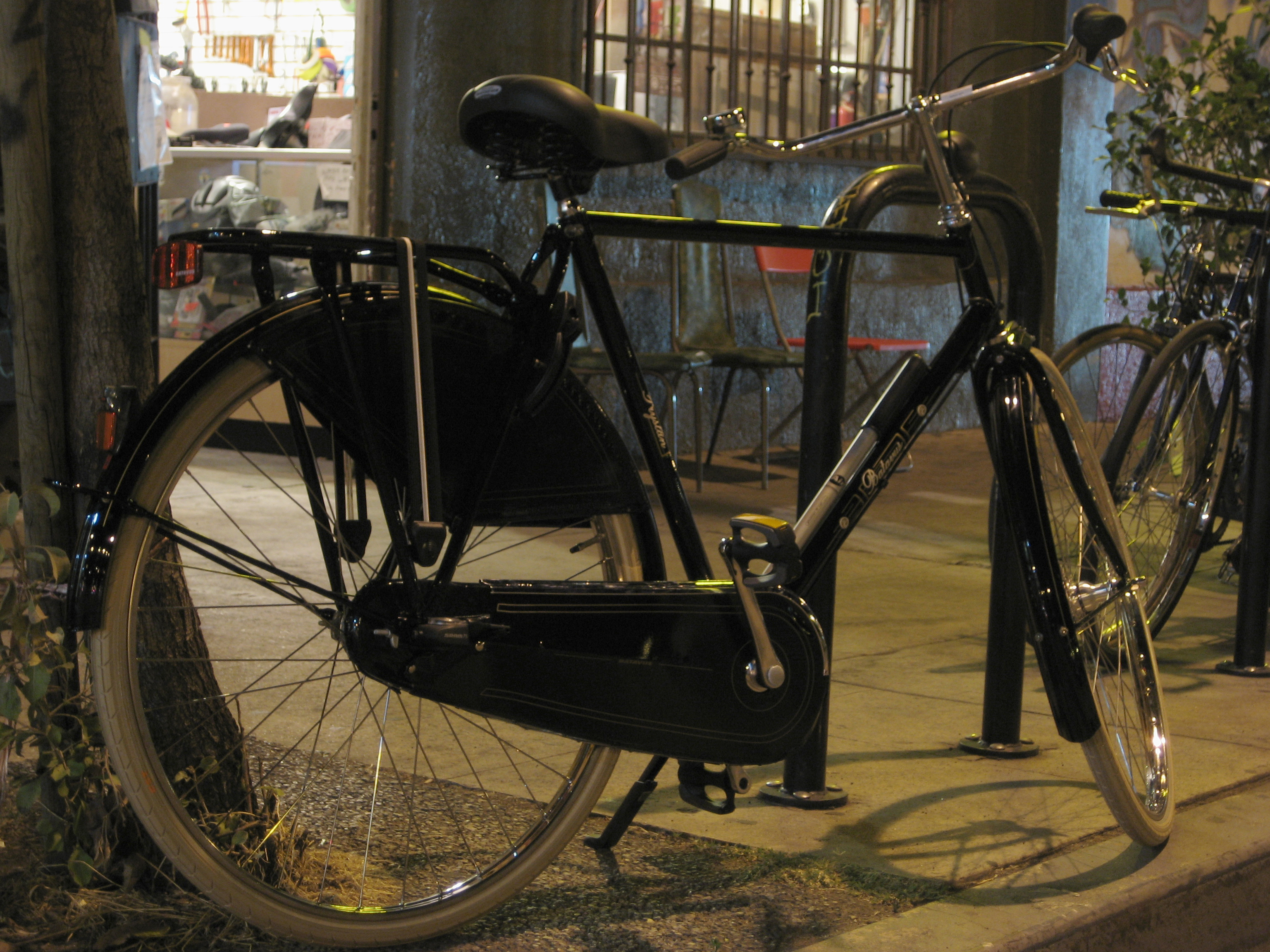 “Off-the-shelf” Batavus, “Favoriet” Old Dutch Roadster